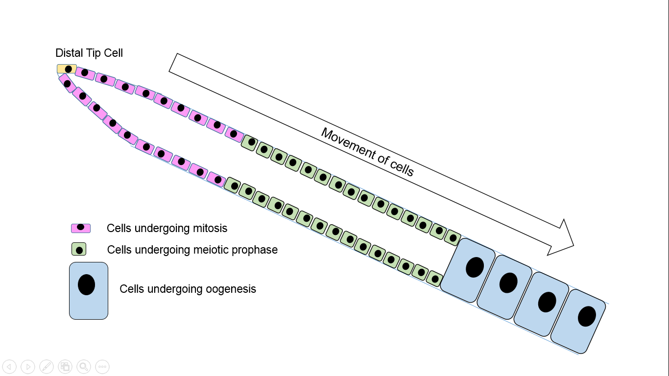 The development of oogonial stem cells in C. elegans adult hermaphrodites. Adapted from